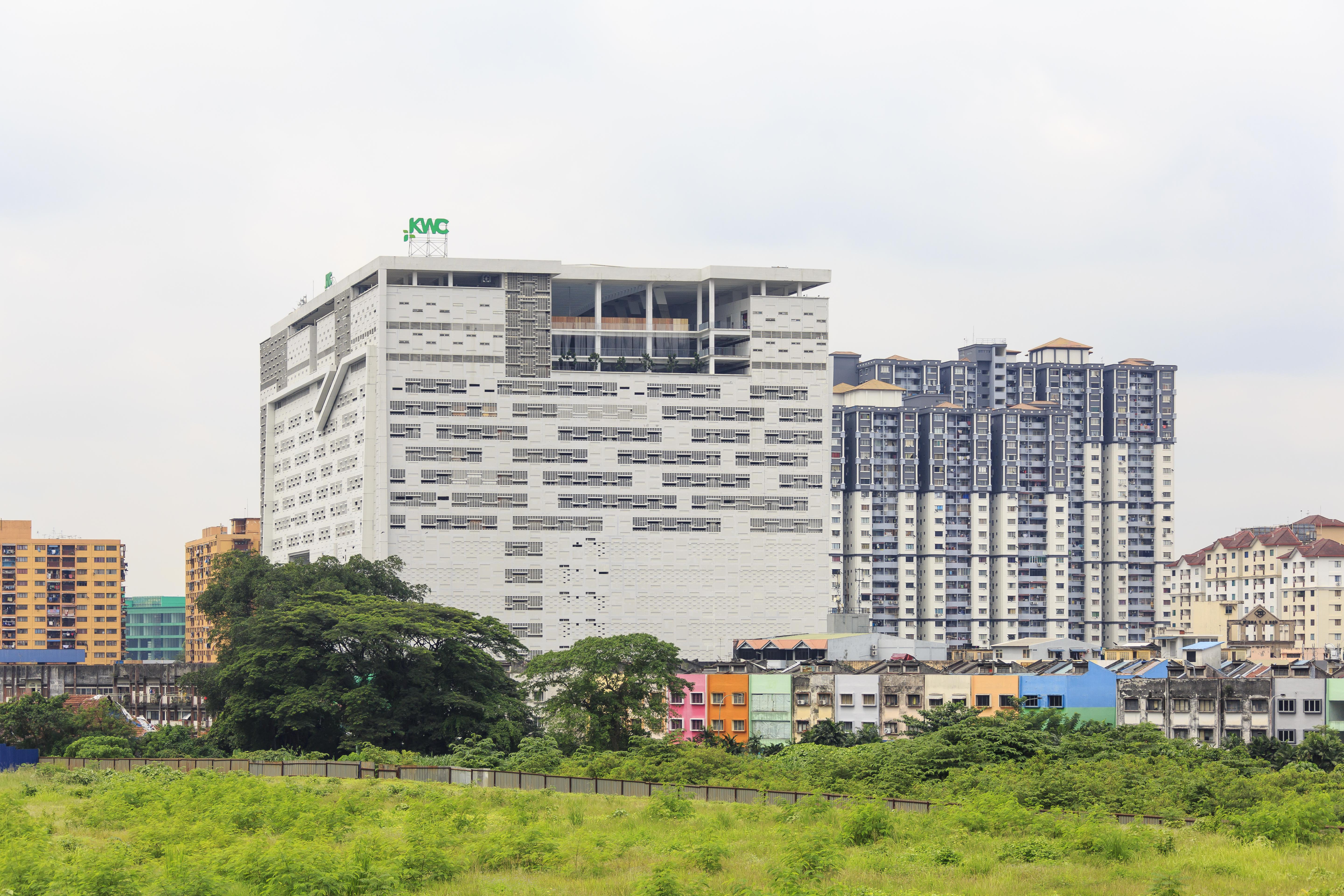 Kuala Lumpur, Malaysia: Kenanga Wholesale City (KWC)